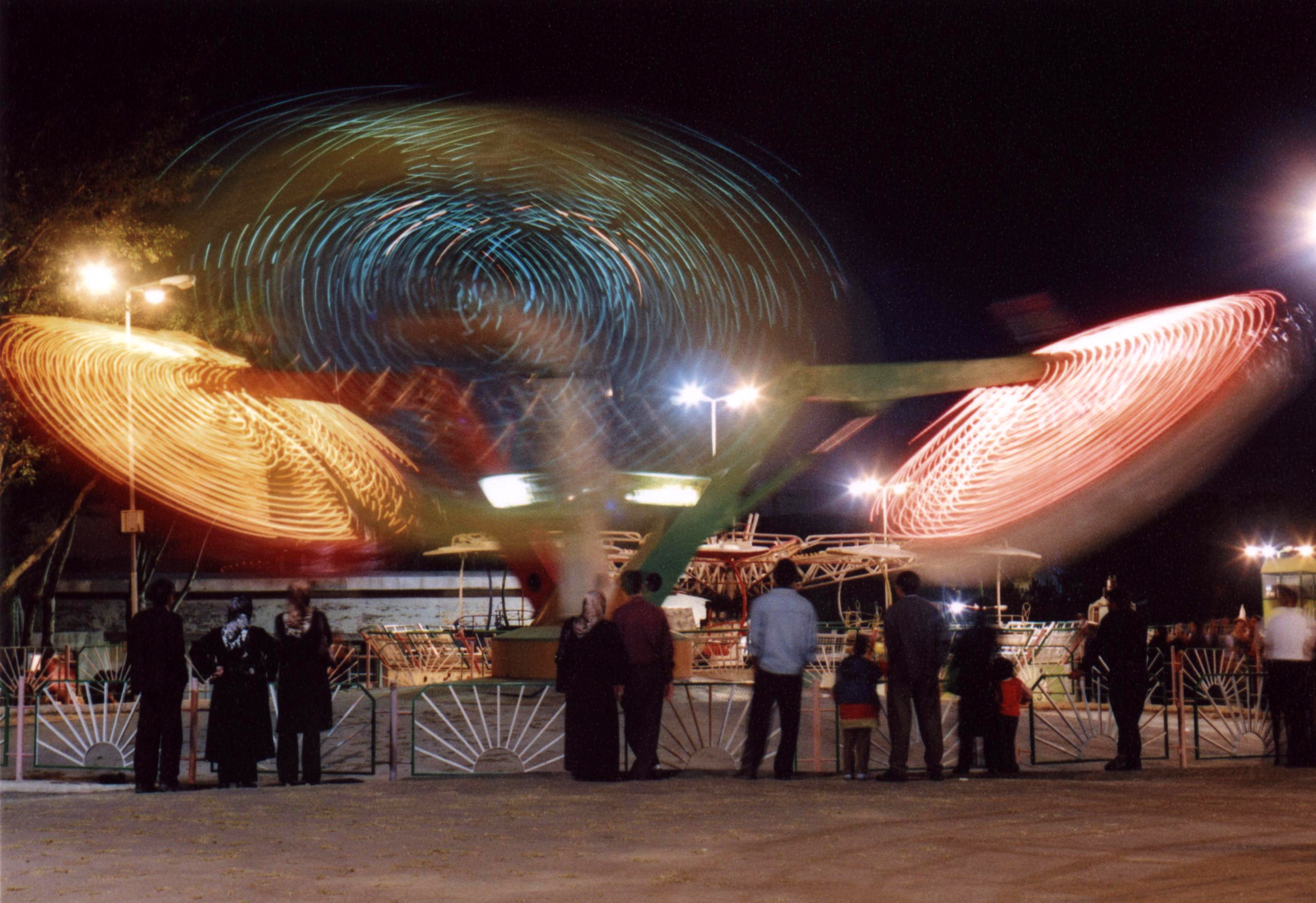 Long expose - Shah guli - Tabriz.